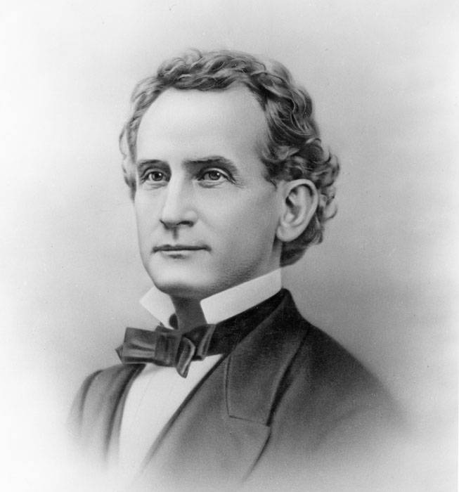 Photo of John W Dawson, governor of the territory of Utah in 1861.